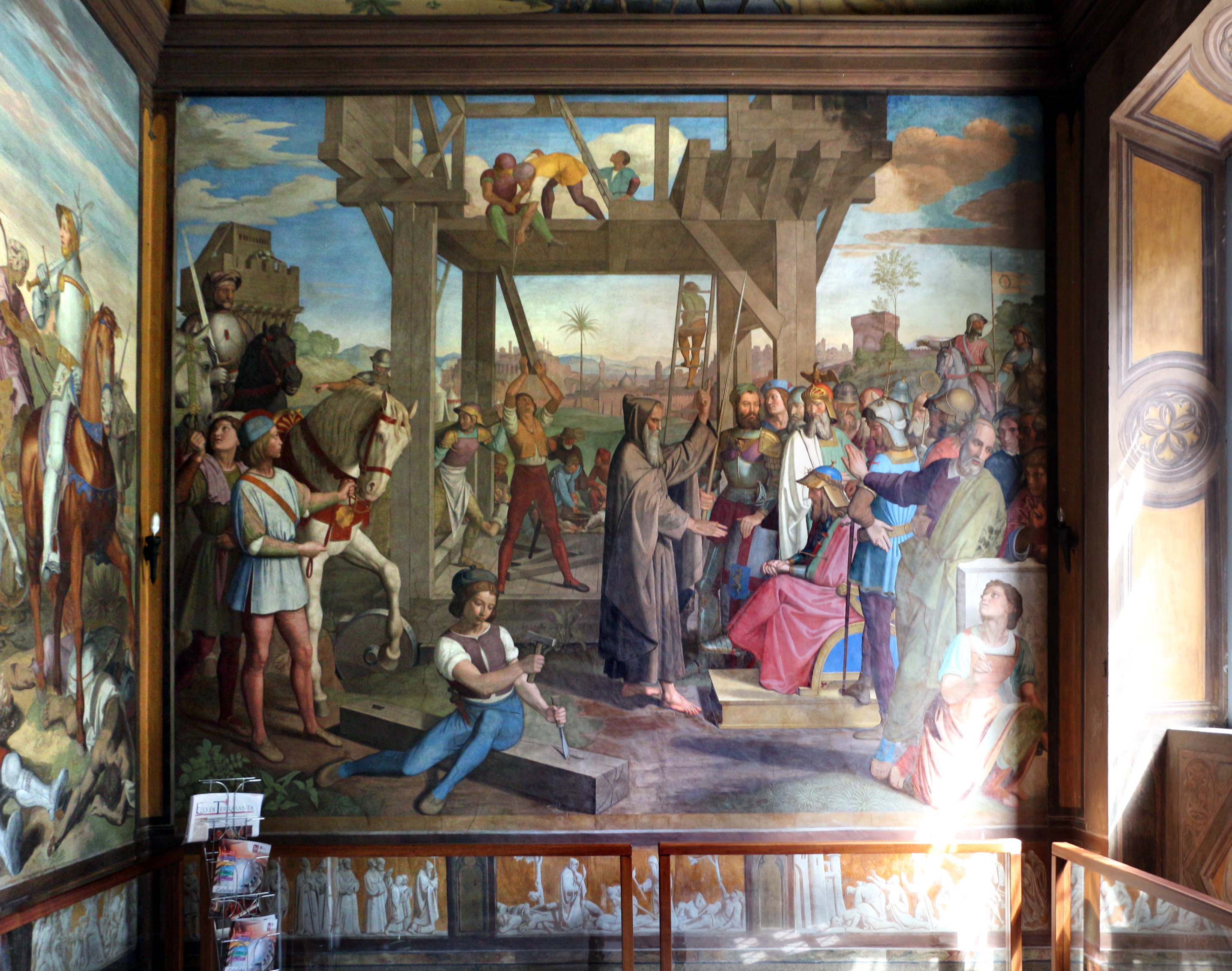 Casa Massimo frescos - stanza del Tasso